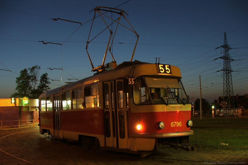 Tatra T3, Spořilov, Prague